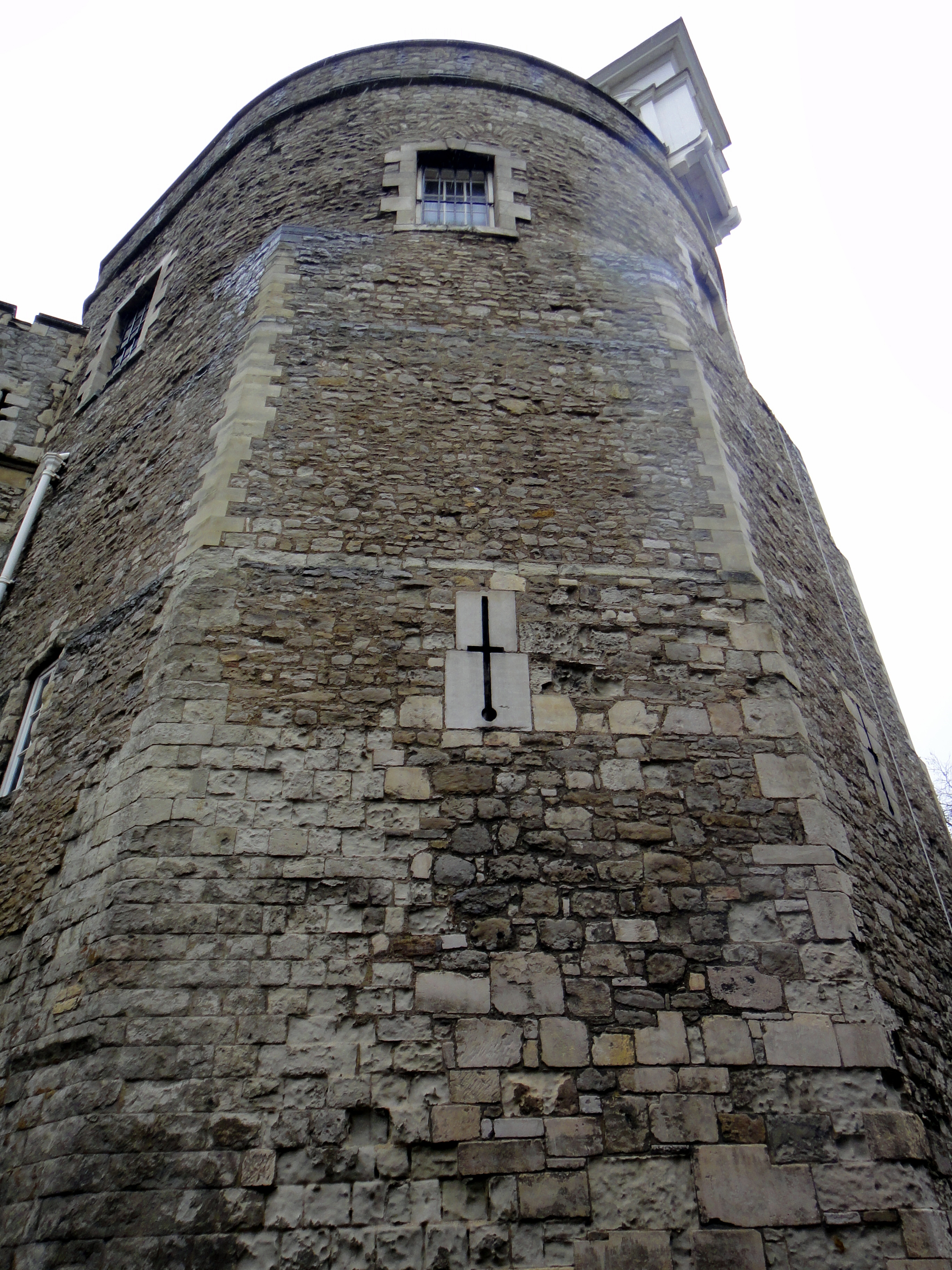 Bell Tower, Tower of London